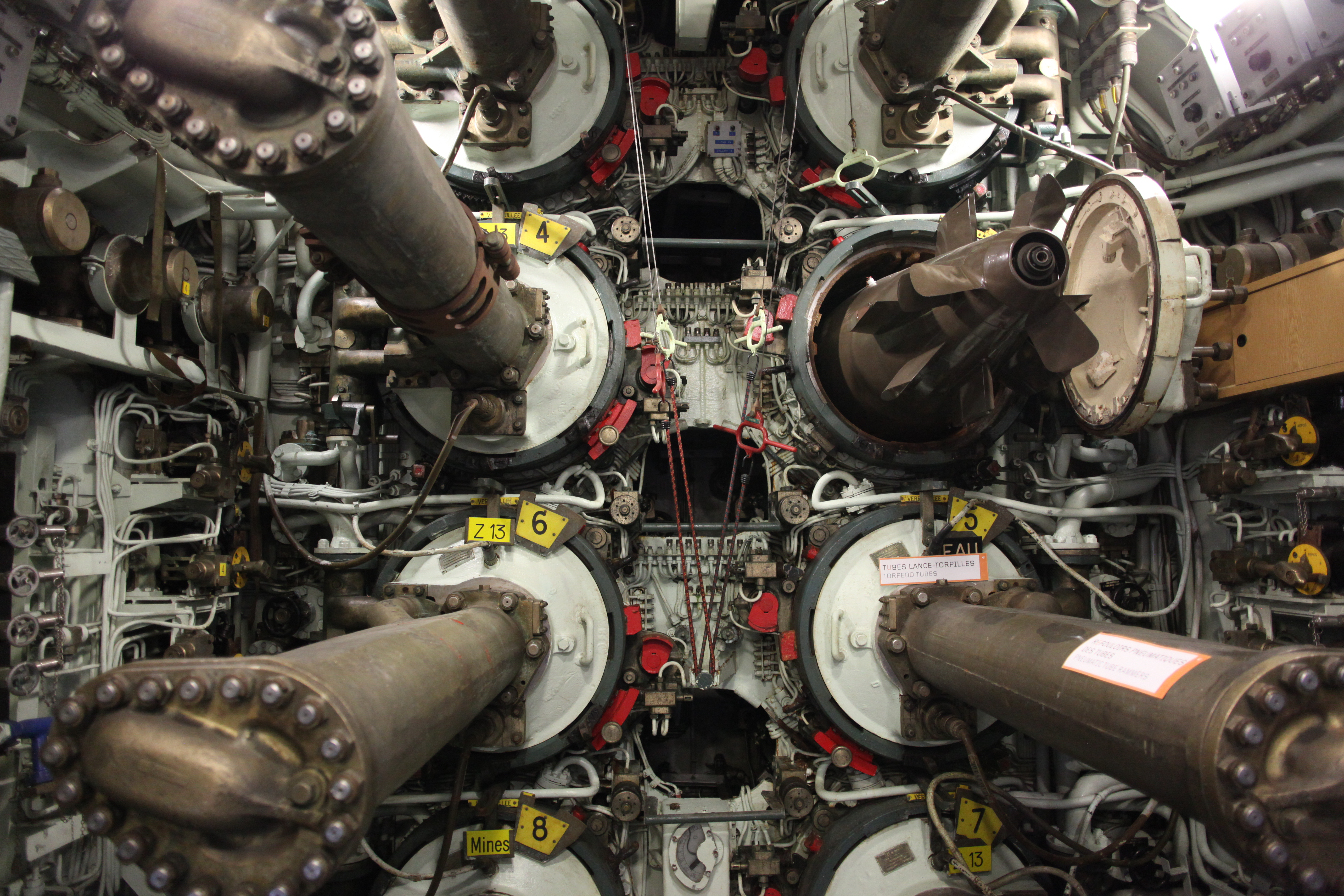 Torpedo tubes of the french submarine Flore (S645)